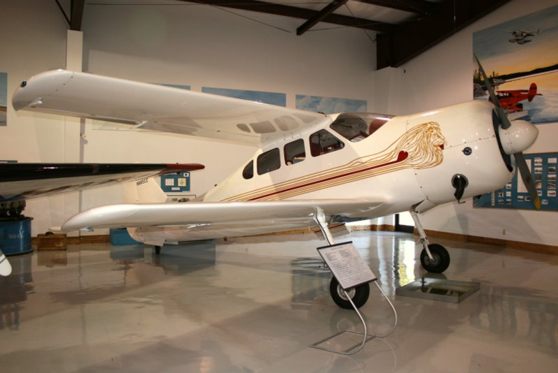 The Griffon Lionheart is a kit-build aircraft based on the Beechcraft Staggerwing. This example is on display at the Beechcraft Heritage Museum in Tullahoma, Tennessee